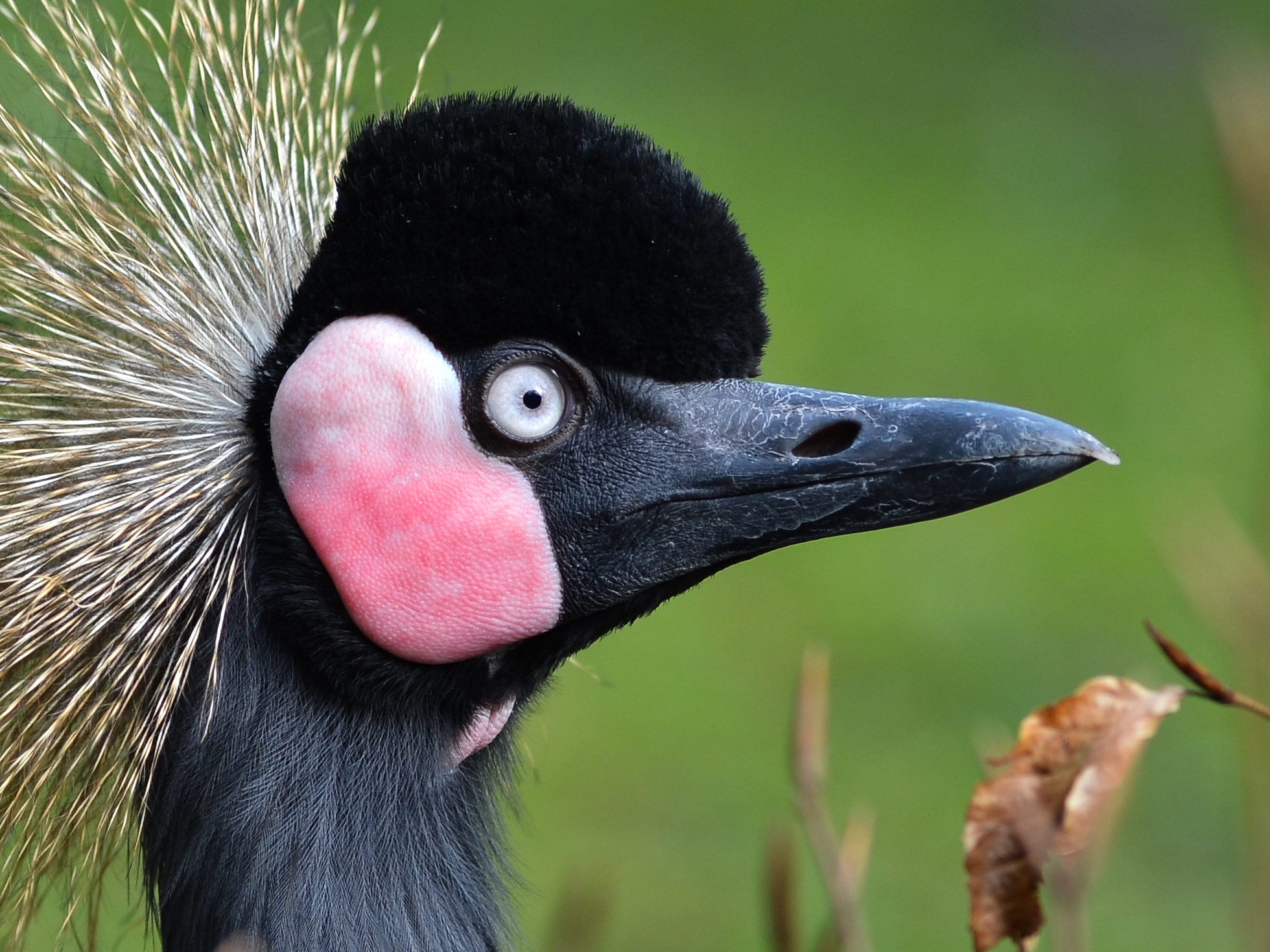 Black Crowned Crane (Balearica pavonina) at Weltvogelpark Walsrode (Walsrode Bird Park, Germany)